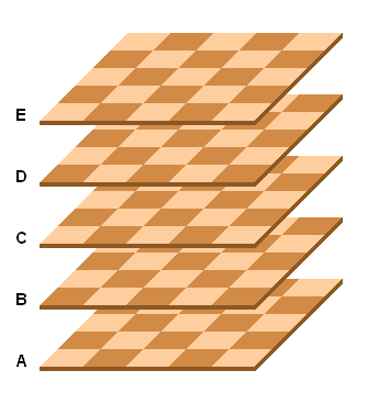 Raumschach gameboard